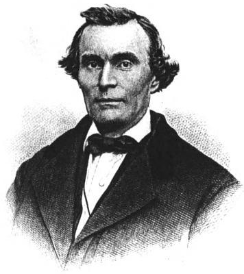 Portrait of Morgan. Illustration from: Henry Morgan. Shadowy hand; or, Life-struggles: a story of real life, 2nd ed. Morgan Chapel, Boston: H. Morgan, 1874.